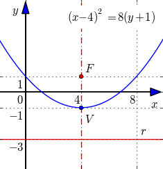 Parabola (x-4)^2 = 8(y+1) of vertical symmetry axis.